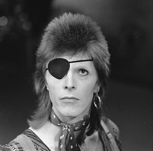 David Bowie, shooting his video for Rebel Rebel in AVRO's TopPop (Dutch television show) in 1974